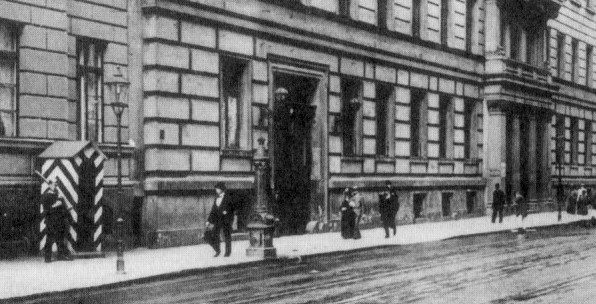 Temporary location of the german parliament (the Reichstag) 1871–1894.